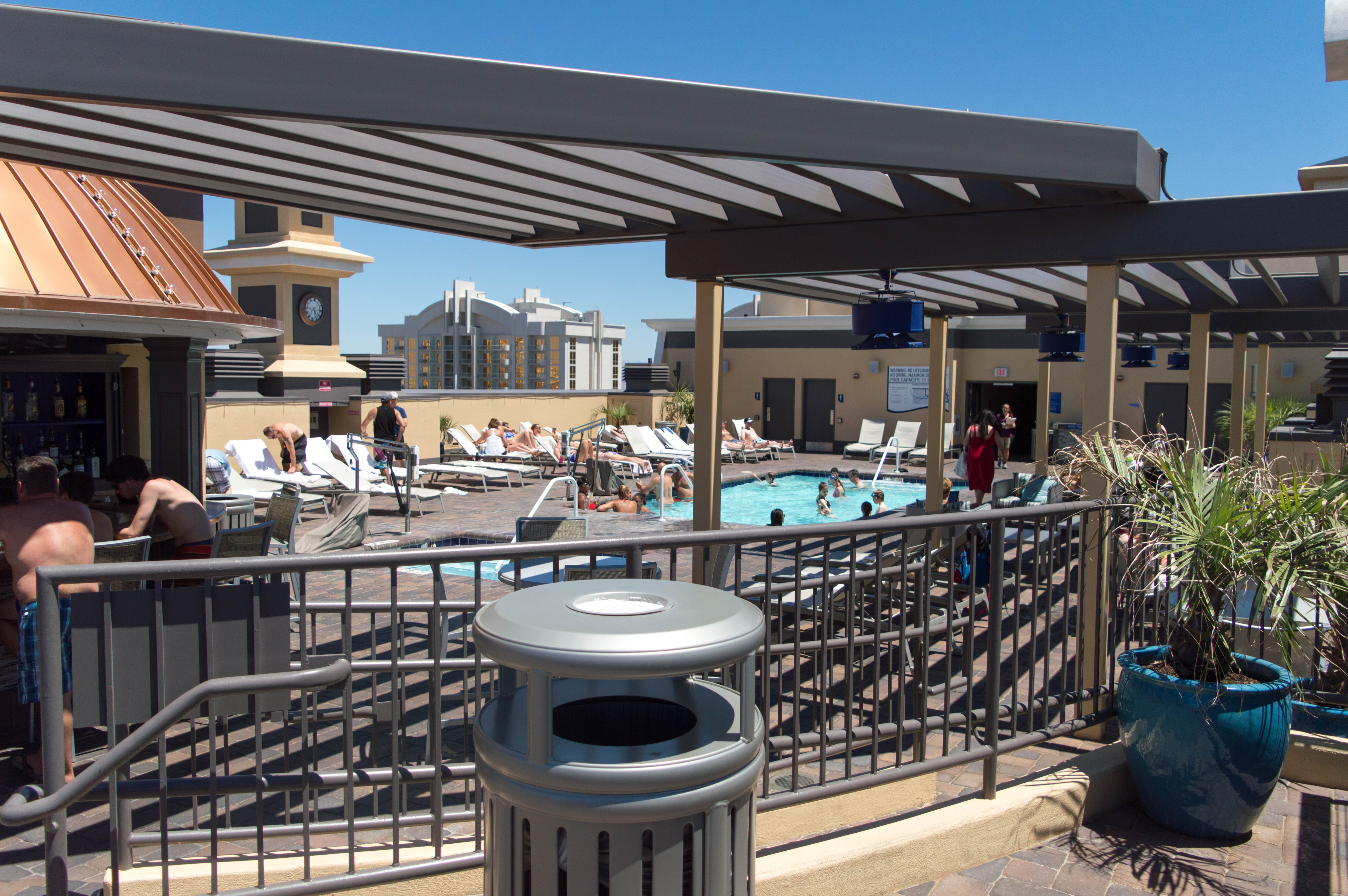 The roof terrace (including swimming pool) of Marriott's Grand Chateau, Las Vegas.